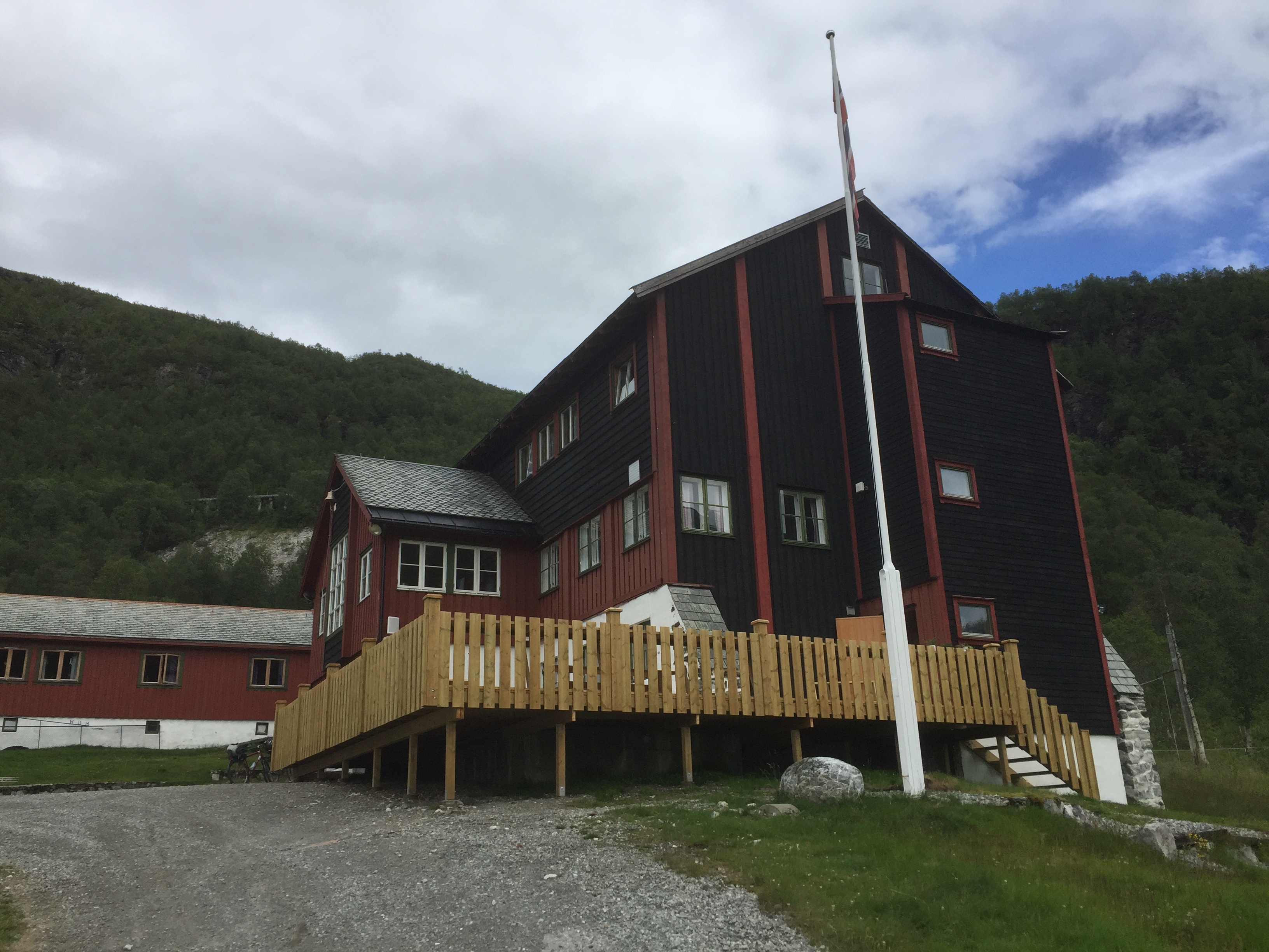 Mjølfjell Youth Hostel in june 2017 Photographs by John Ivar Halvorsen is licensed under a Creative Commons Attribution 4.0 International License. Based on a work at